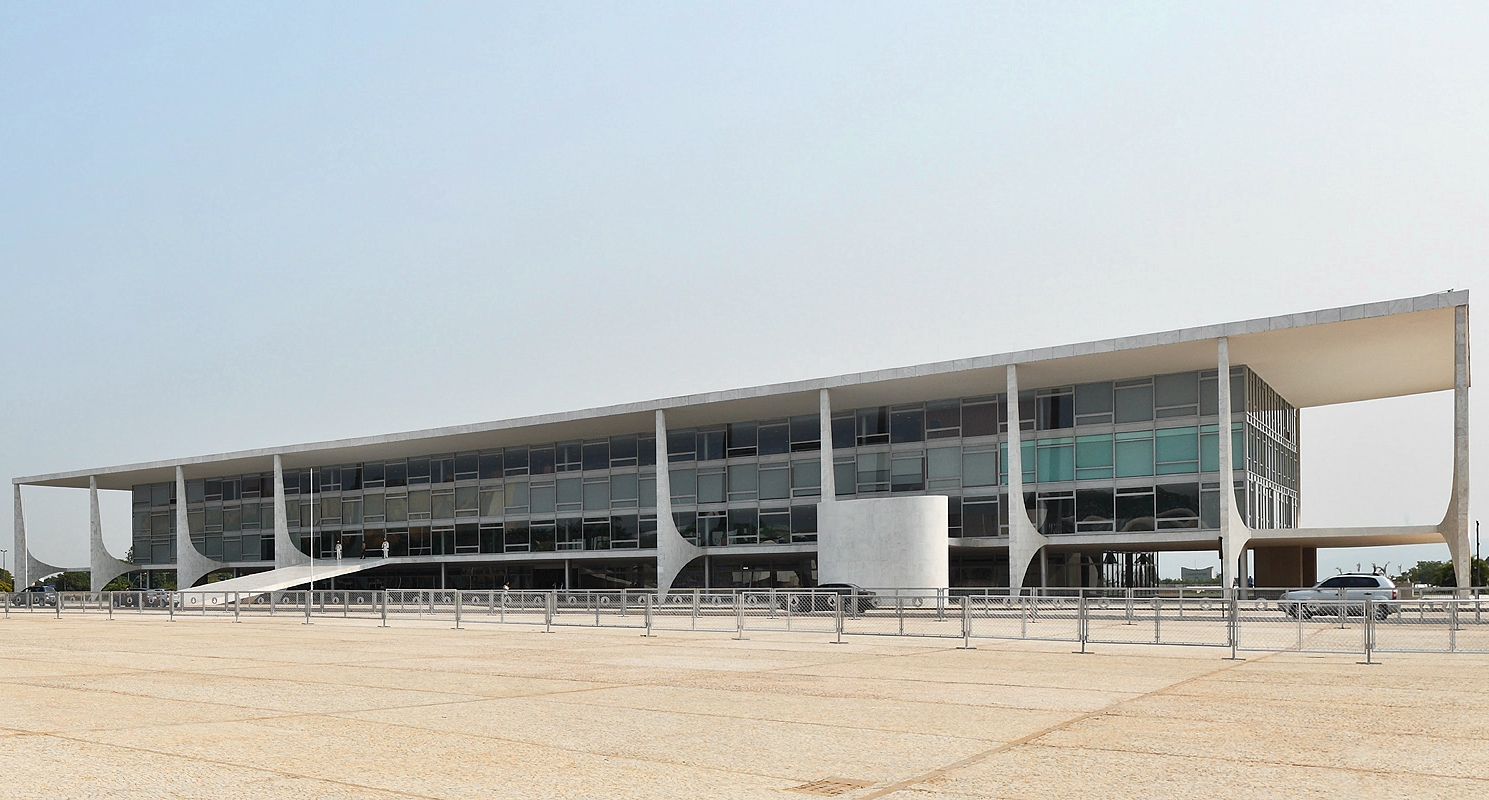 Panoramic view of the Palácio do Planalto